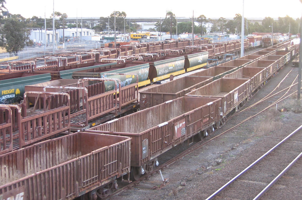 Railway wagons at North Melbourne, Victoria, Australia